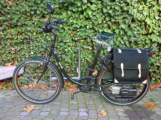 Sachs Saxonette Classic MY 1997